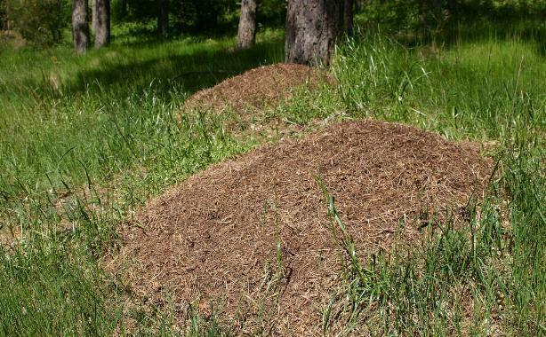 Ant hill